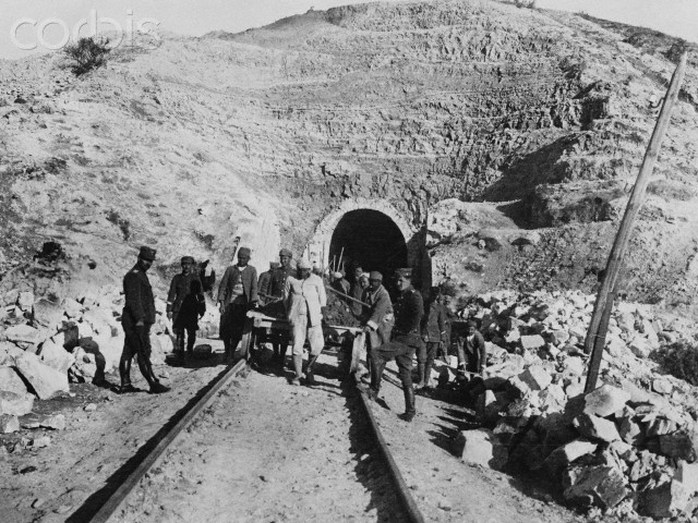 Turkish prisoners building a railroad while their Greek captors watch over them. August 1921Türkçe: Türk esirler, onları esir alan Yunanların gözetiminde bir demiryolu inşa ediyorlar, Ağustos 1921.